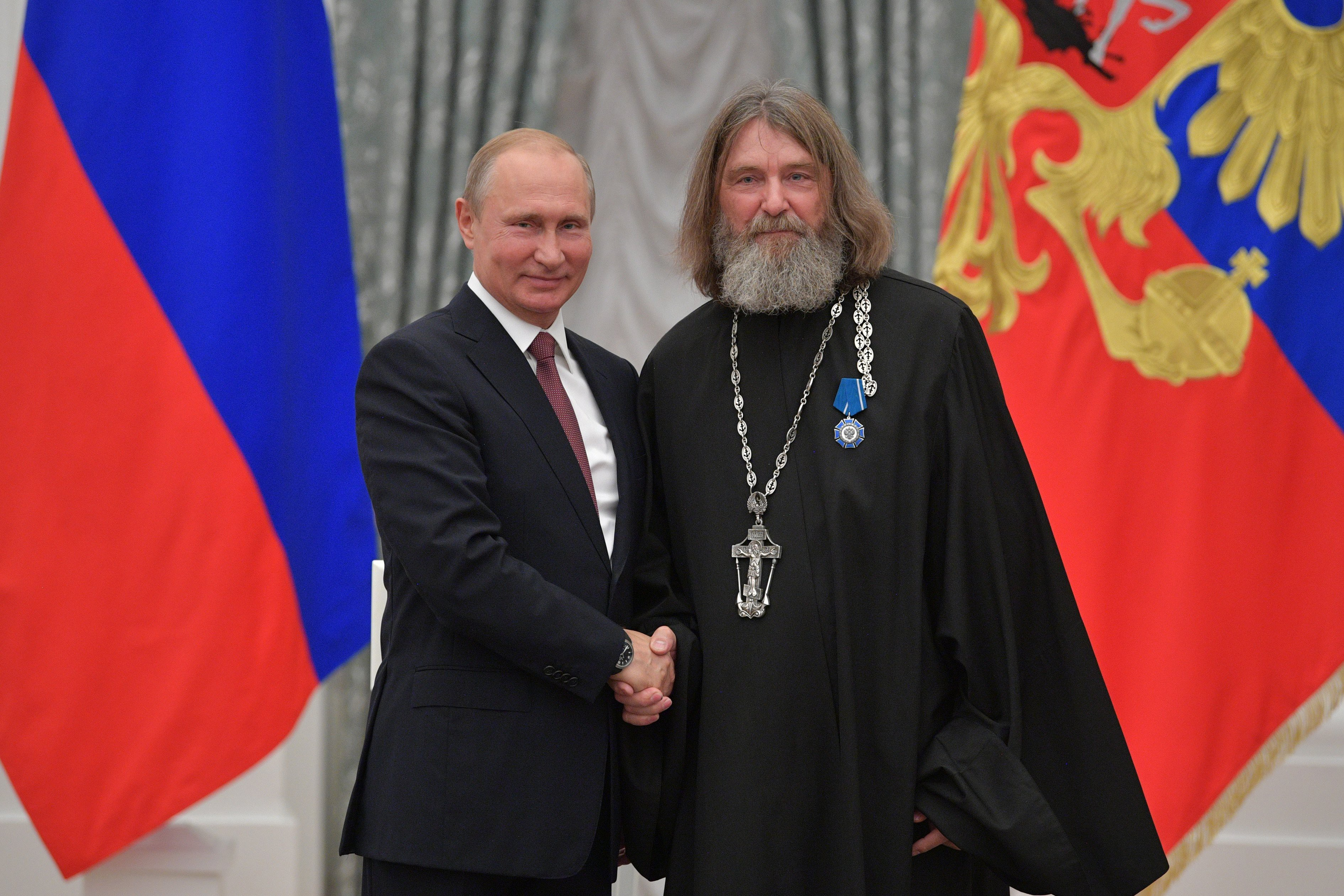 Vladimir Putin and Fyodor Konyukhov at award ceremonies 27 Jun 2018, Kremlin, Moscow.